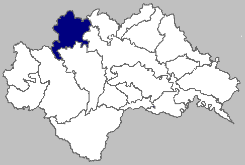 Self-made map of Lekenik municipality within Sisak-Moslavina County.